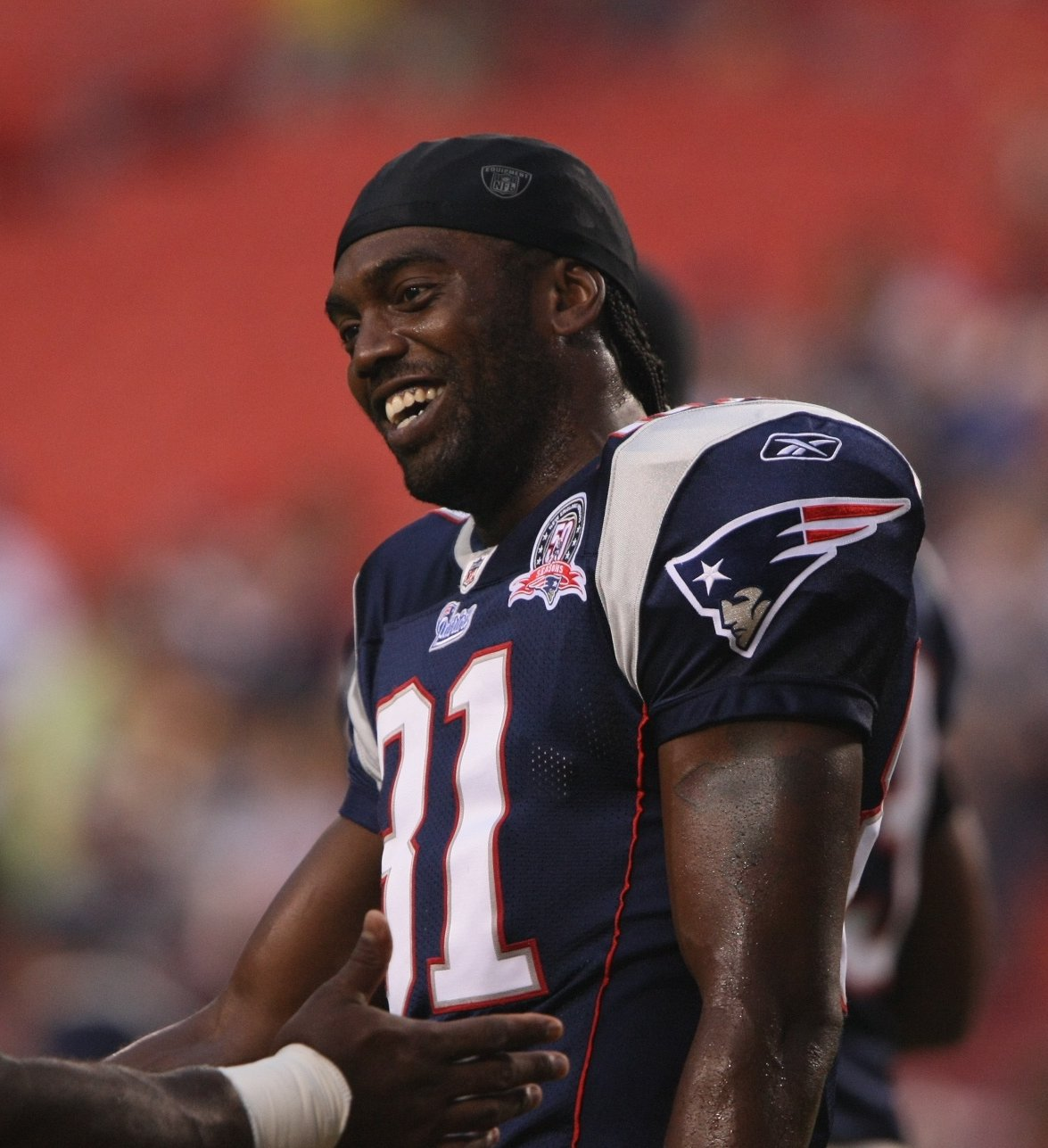 Randy Moss #81 of the New England Patriots before a preseason game against the Washington Redskins at FedExField on August 28, 2009 in Landover, Maryland.